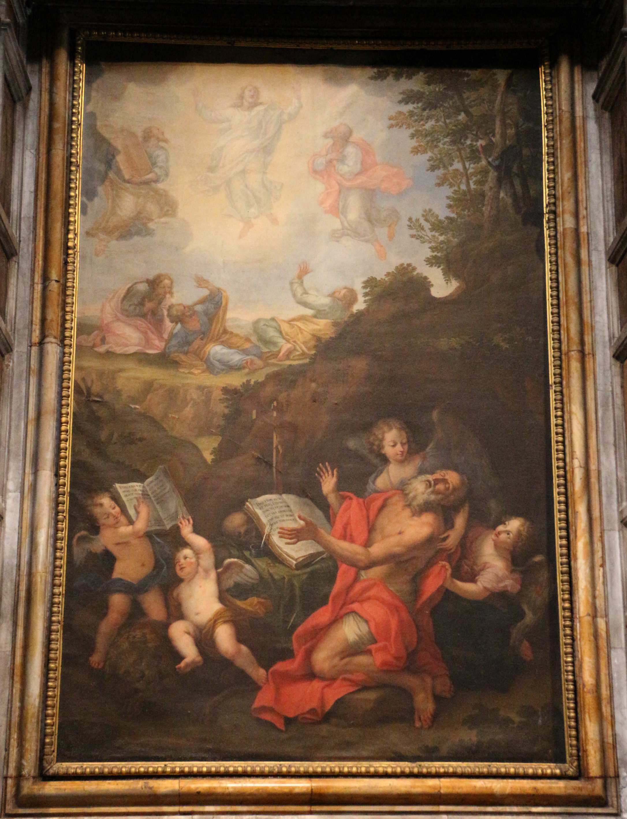 Cathedral (Siena) - Interior